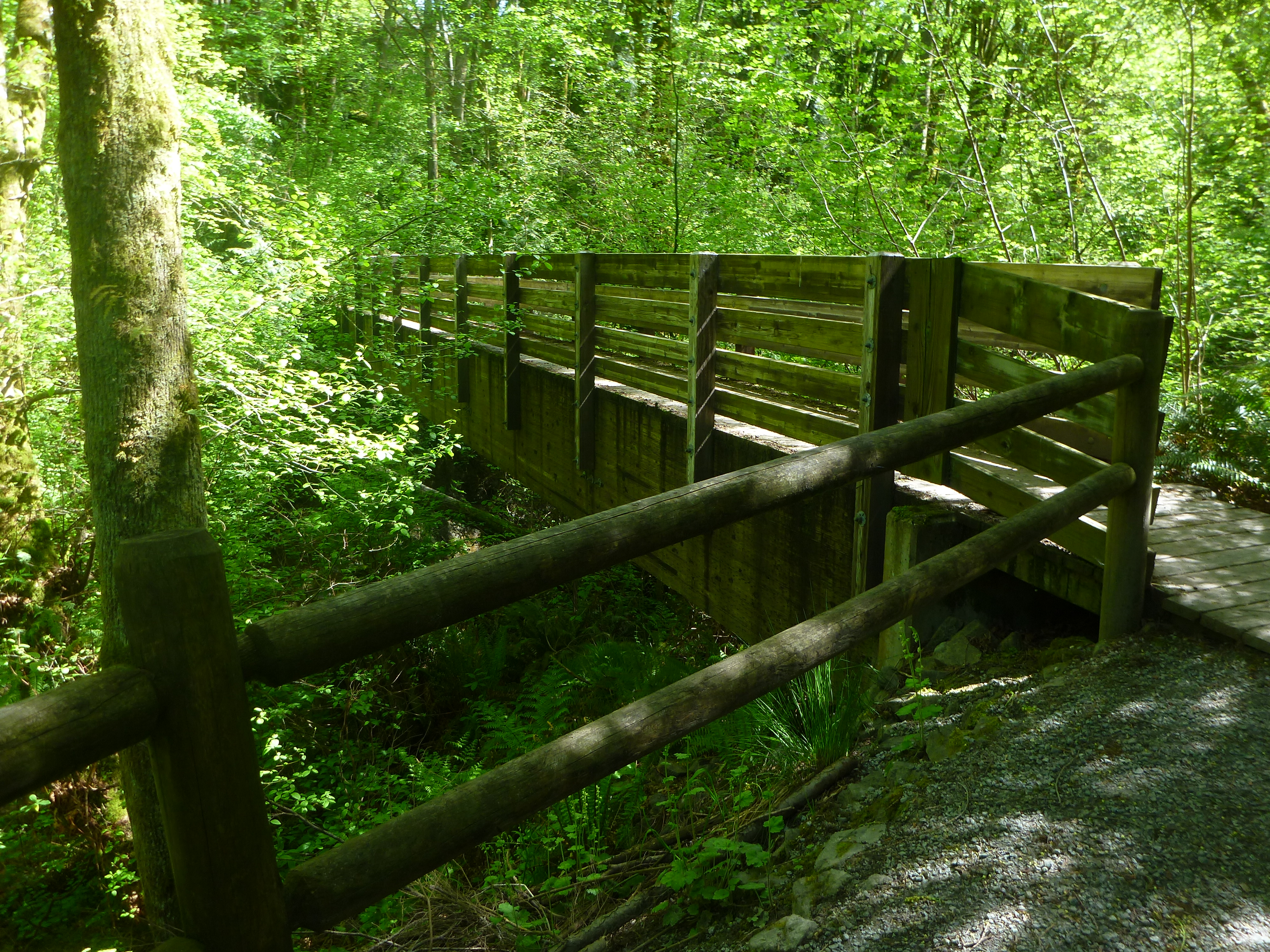 Wooden bridge crossing Taylor Creek in Seattle's Lakeridge Park, also known as Deadhorse Canyon.